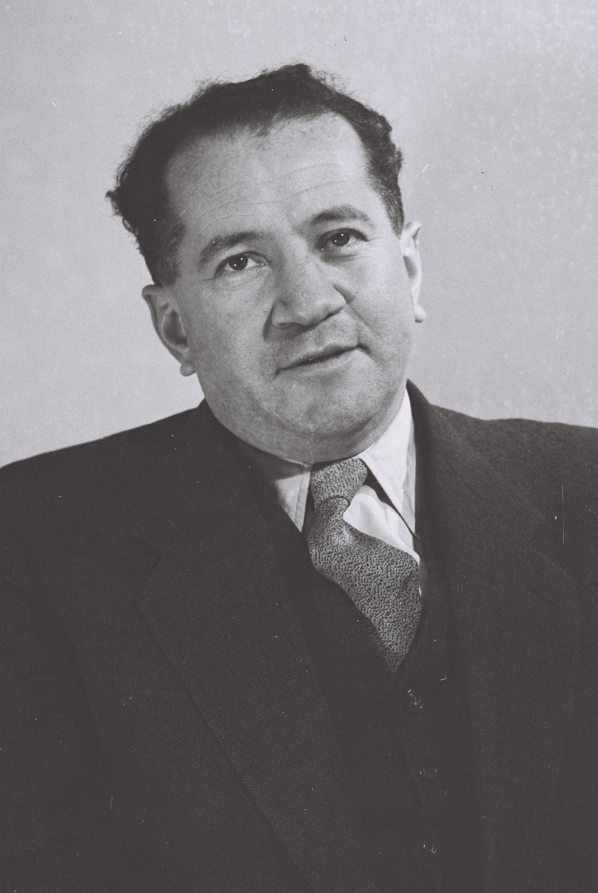 Portrait, Zeev Sherf, secretary of state of Israel.